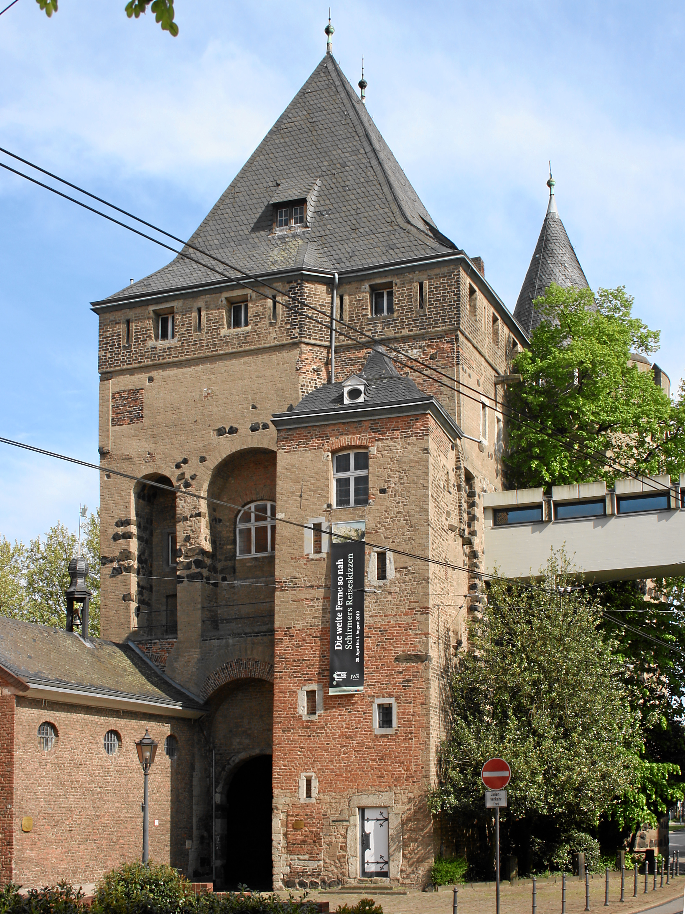 Neuss, Germany. Obertor, last preserved medieval city gate of the town. View from town, bottom left the city gate chapel.